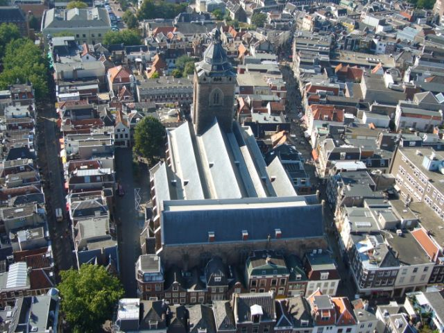 Buurkerk vanaf de Dom